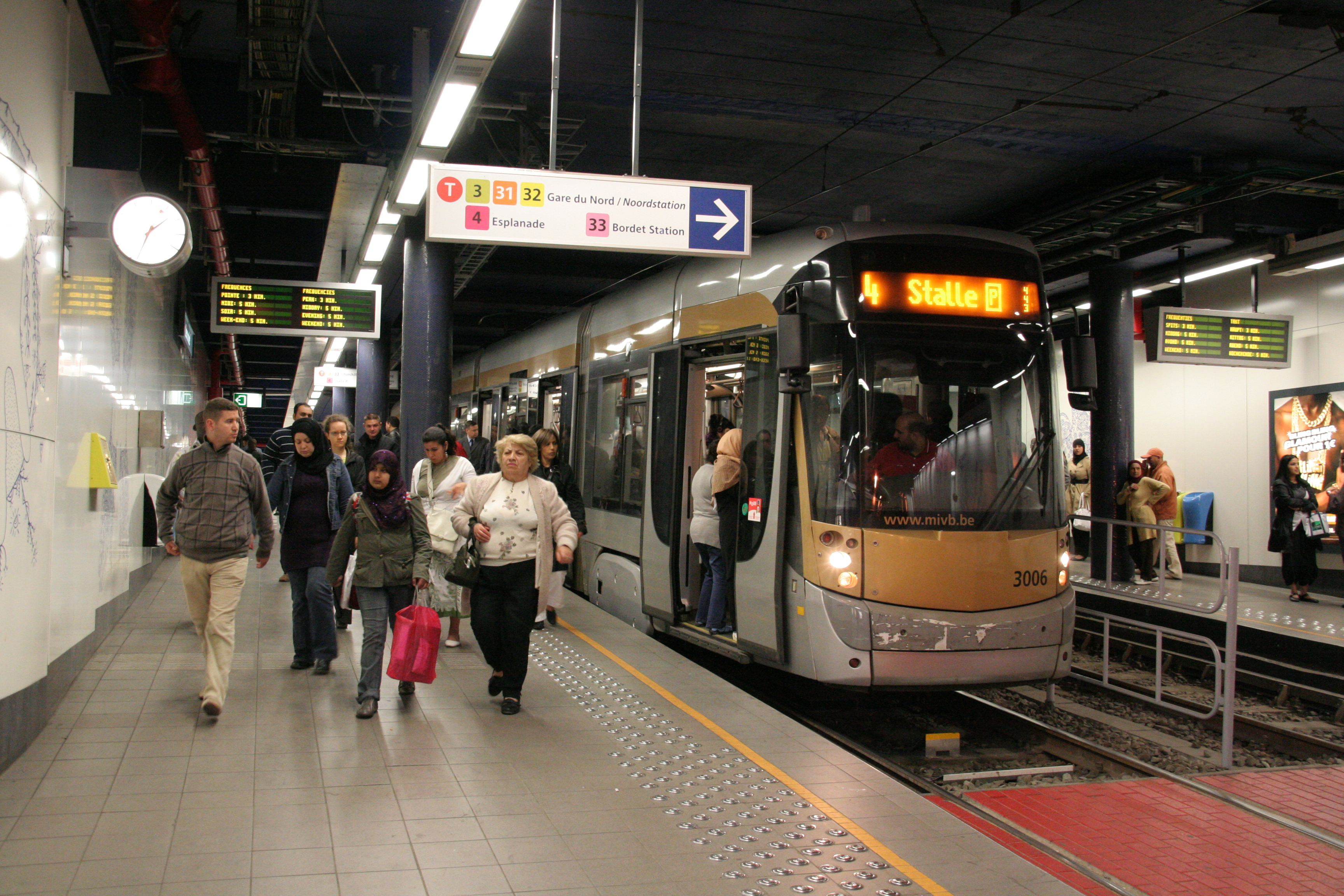 Brussels Cityrunner